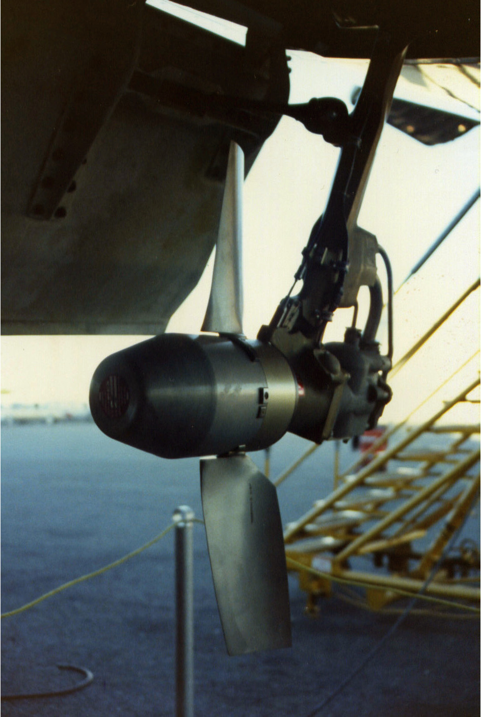 Ram air turbine of a Boeing 757